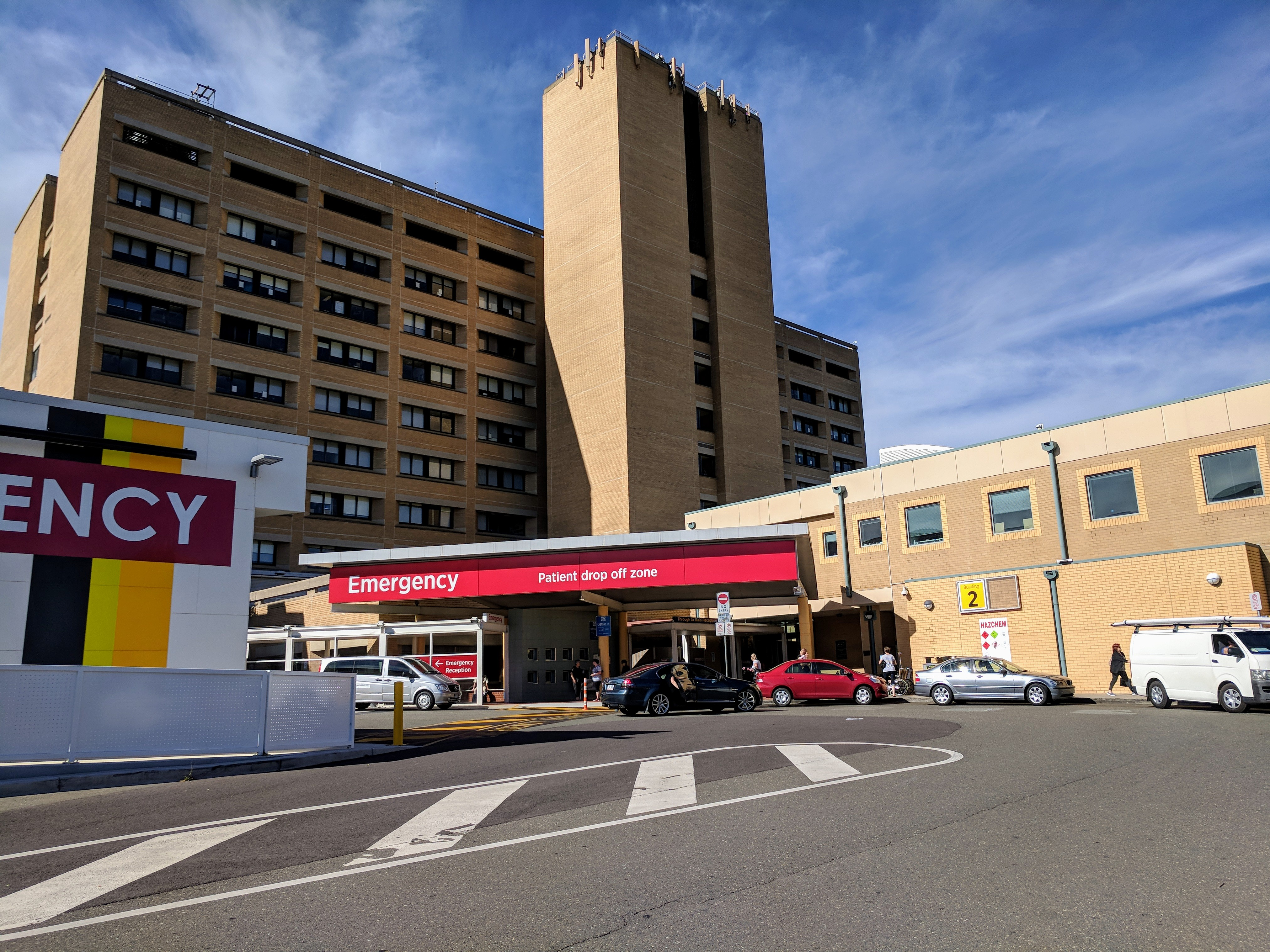 The entrance to the Emergency section of Canberra Hospital and the complex's main tower